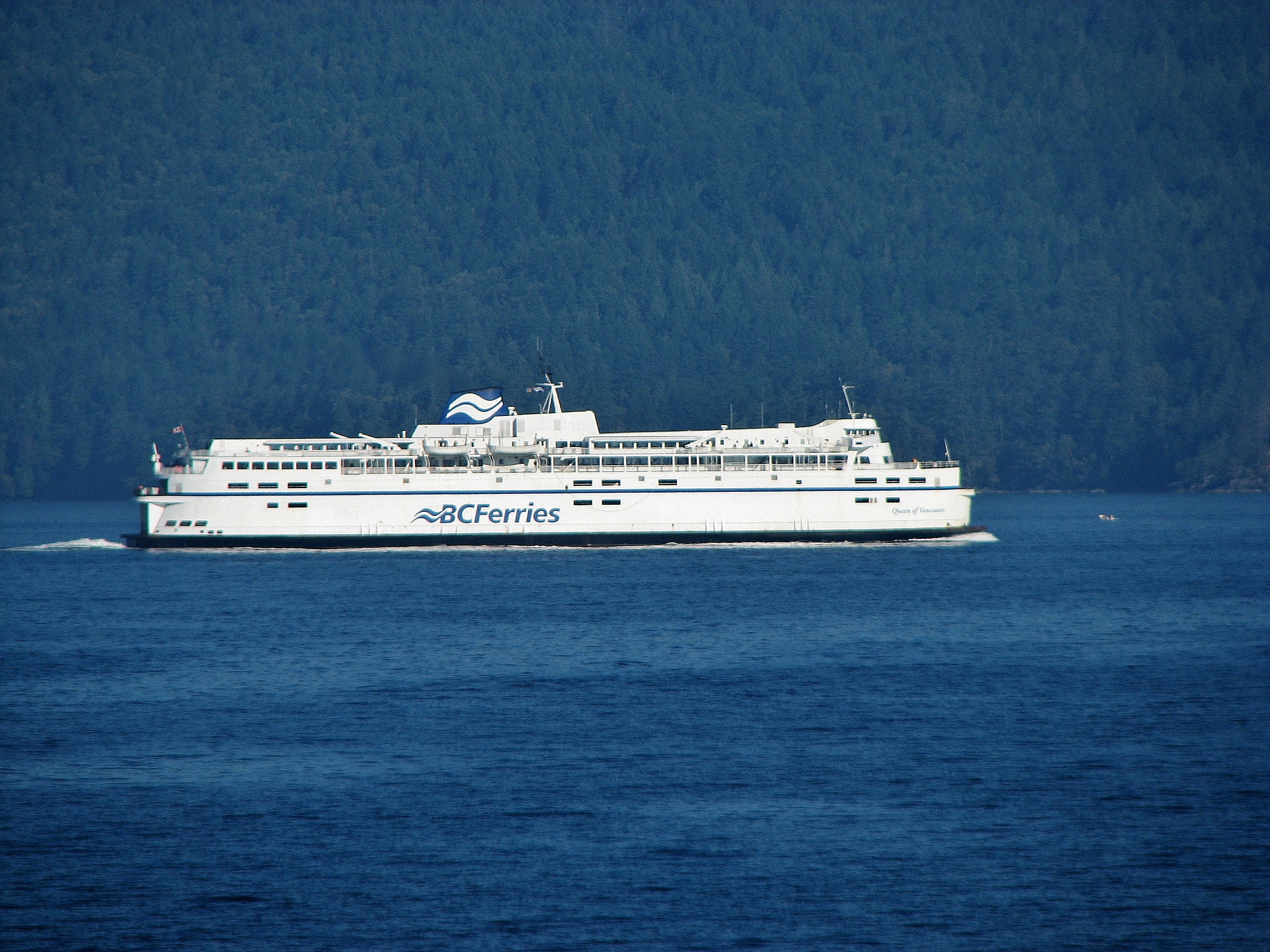 BC Ferry Queen of Vancouver IMO Number: 5288035 MMSI Number: 316001264 Callsign: CYMW Length: 168 m Beam: 27 m